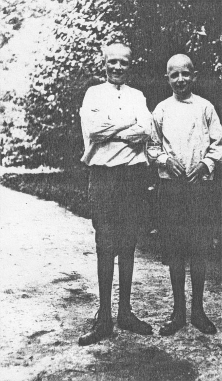 Борис і Володимир Штайнгайлі.